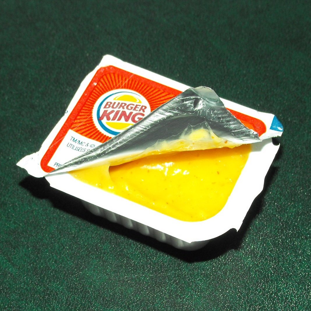 Open packet of Burger King Zesty Sauce, used for dipping onion rings. The recipe is not disclosed.